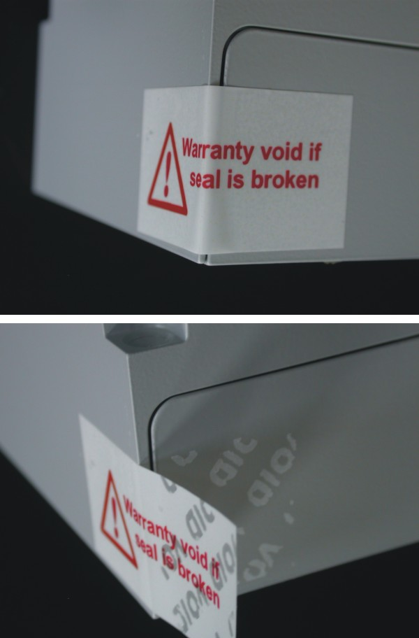 Warranty void if seal is broken